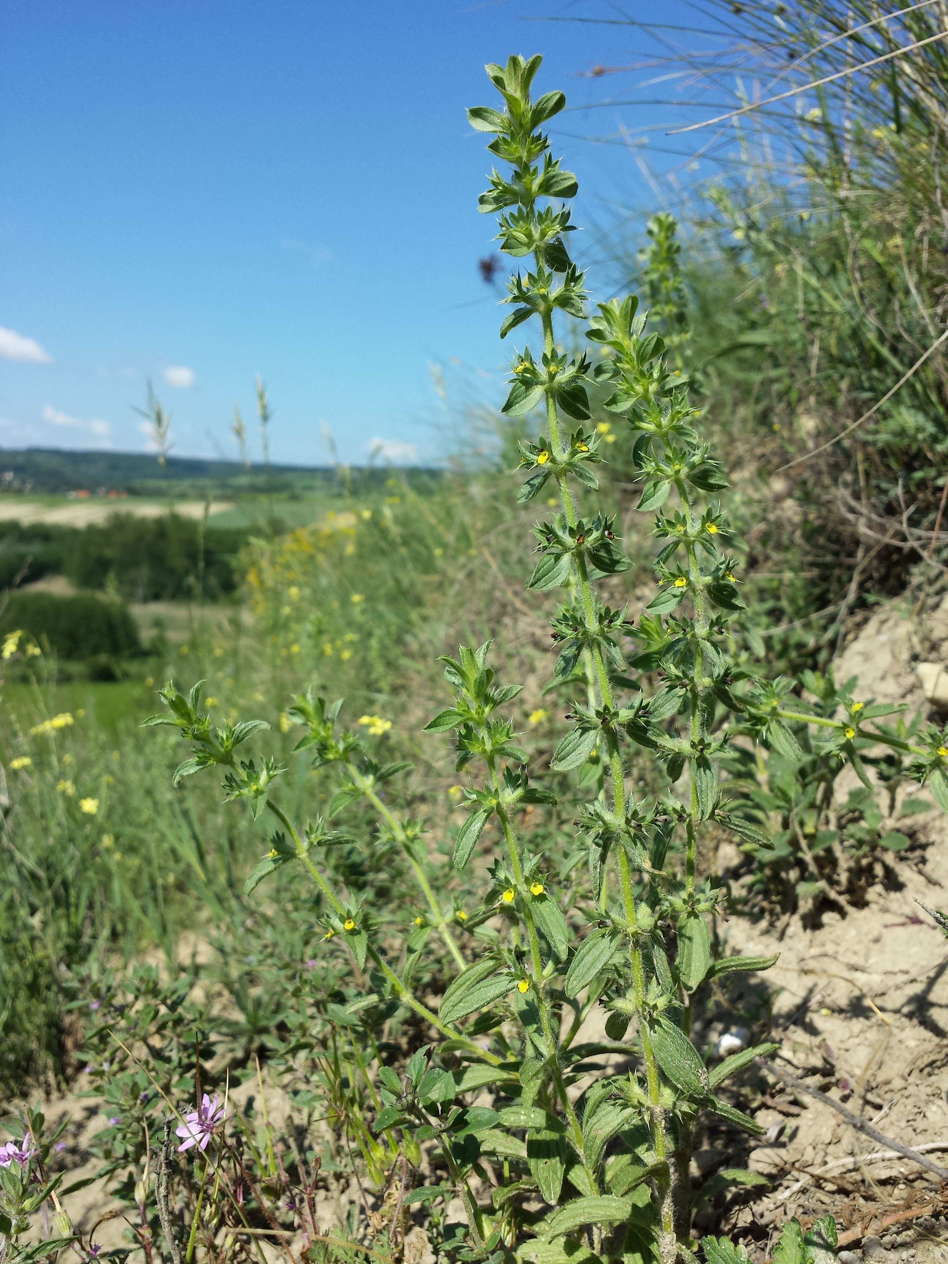 Habitus Taxon: Sideritis montana (sensu Fischer et al. EfÖLS 2008 ISBN 978-3-85474-187-9) Location: Haulesbergen, Ulrichskirchen-Schleinbach, district Mistelbach, Lower Austria - ca. 200 m a.s.l. Habitat: dry grassland over Loess